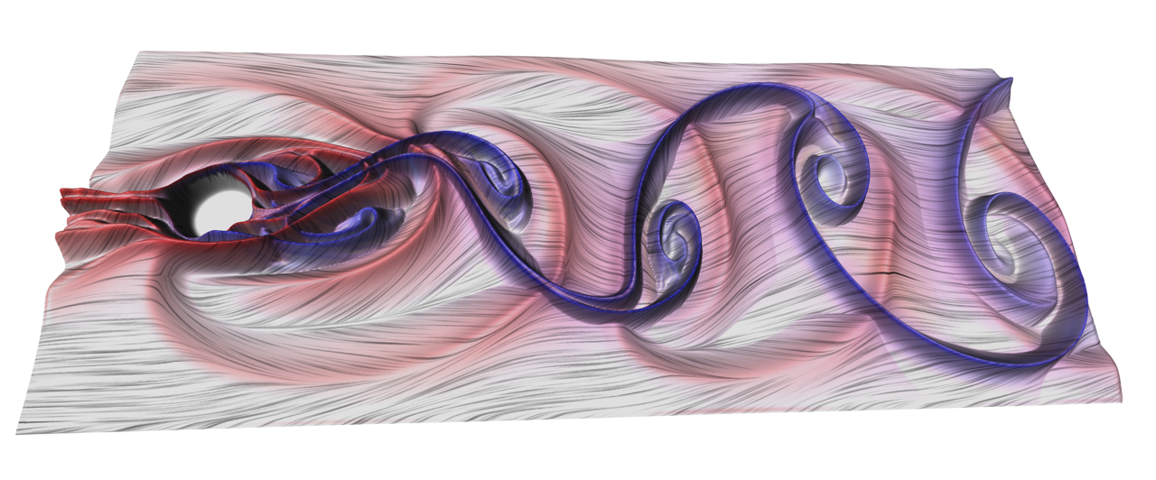 Lagrangian Coherent Structures -- Lagrangian Feature Extraction of the Cylinder Wake (